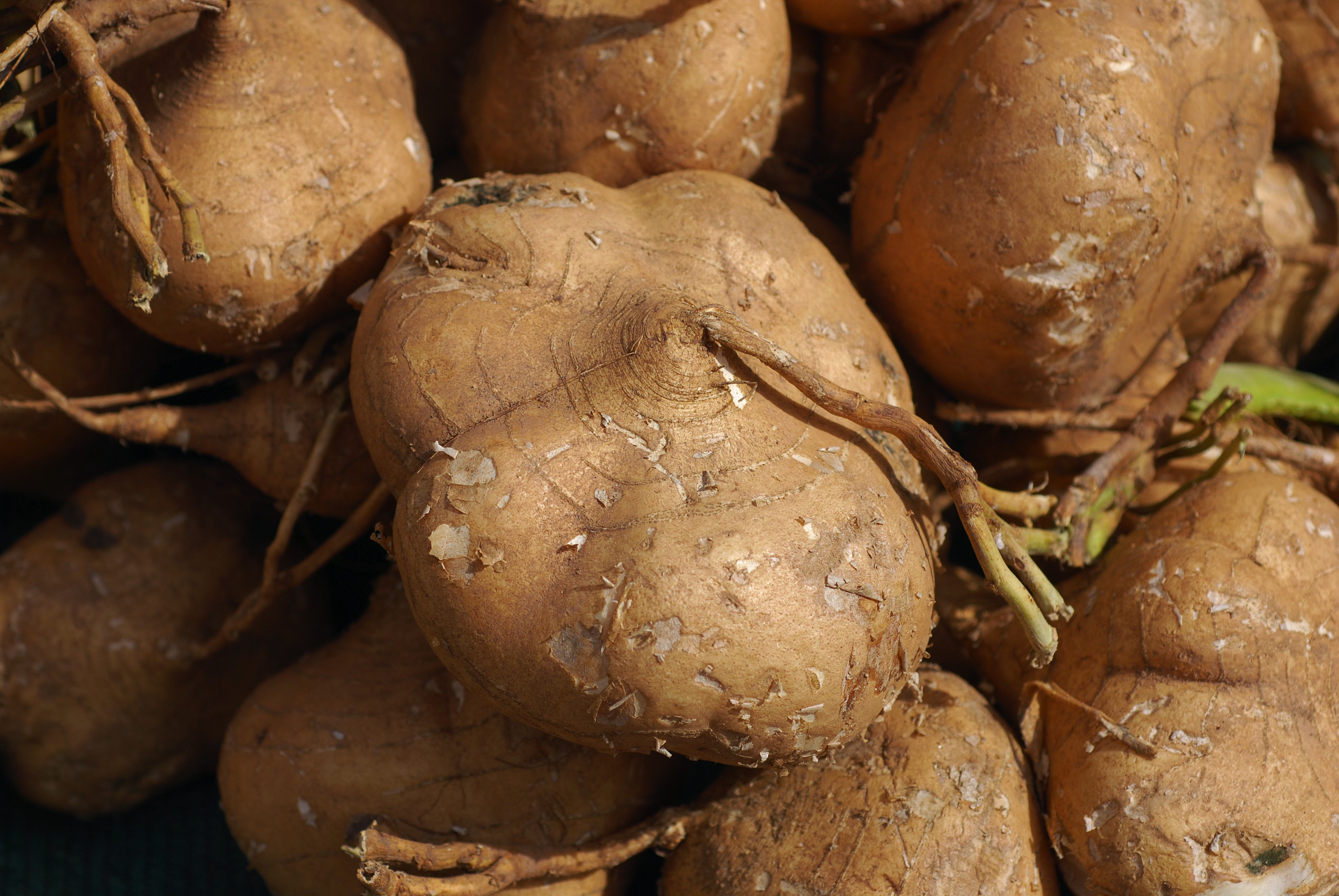 Pachyrhizus erosus, common name Jicama, a root vegetable in the Fabaceae. Photographed at a farmer's market in San Francisco